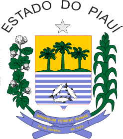 Coat of arms of the state of Piauí, Brazil.